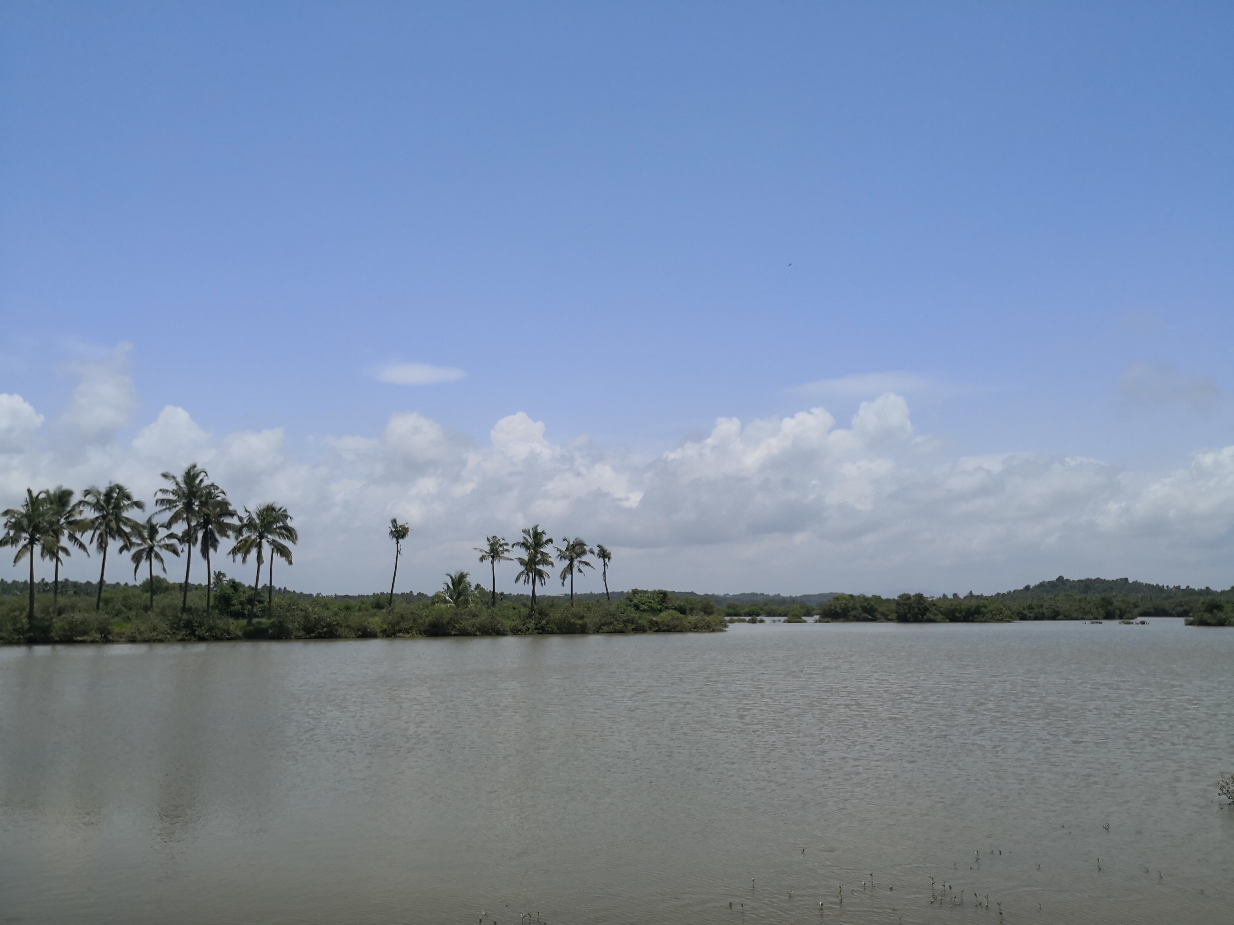 East Palayad-Paddy field,Anjarakkadny River